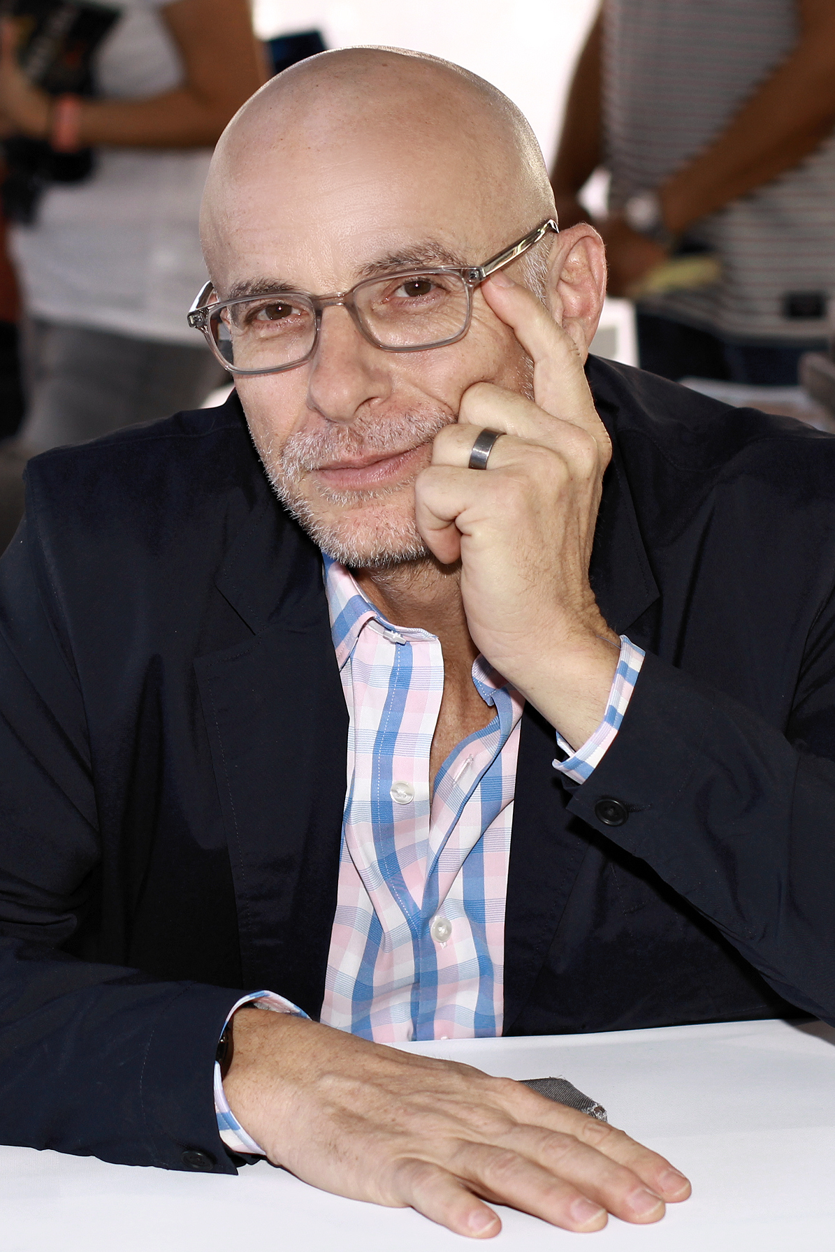 Author David Treuer at the 2019 Texas Book Festival in Austin, Texas, United States.